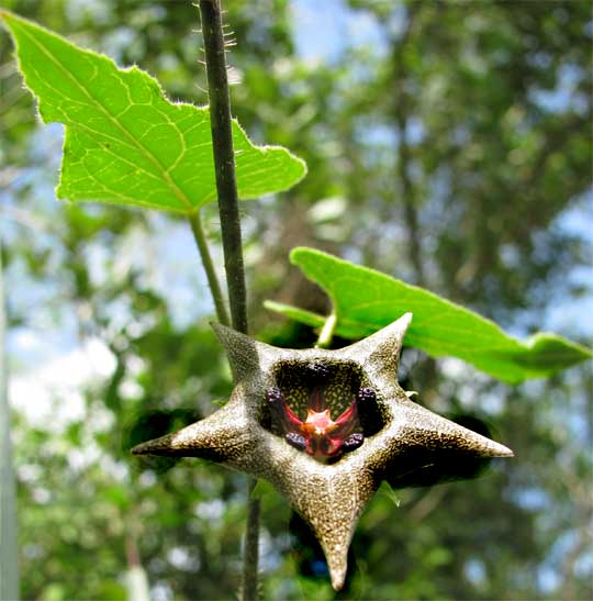 Dictyanthus yucatanensi, formerly called Matelea yucatanensis - a vine relatively common in the Yucatán.